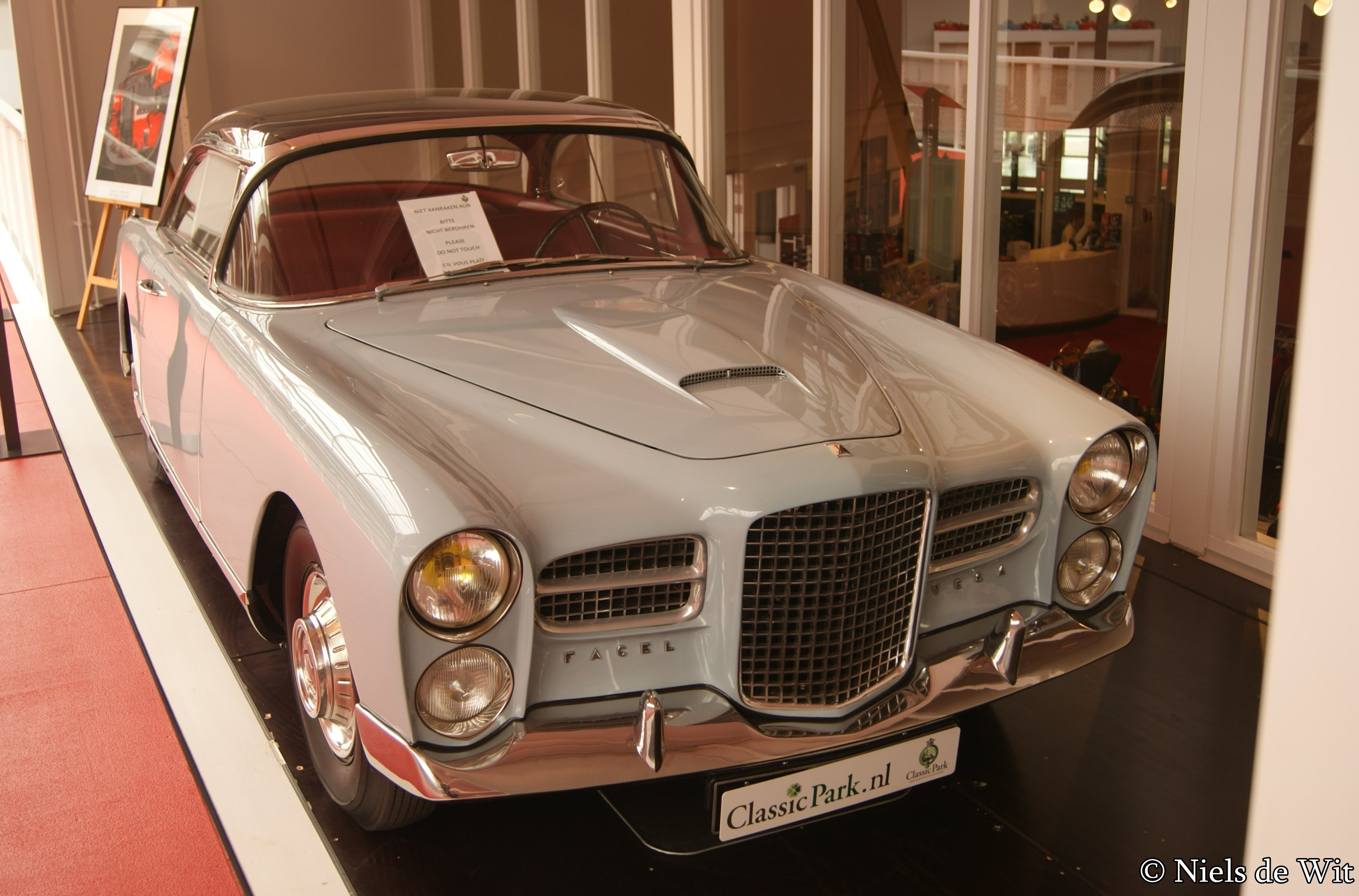 Classic Park Boxtel Only 92 made